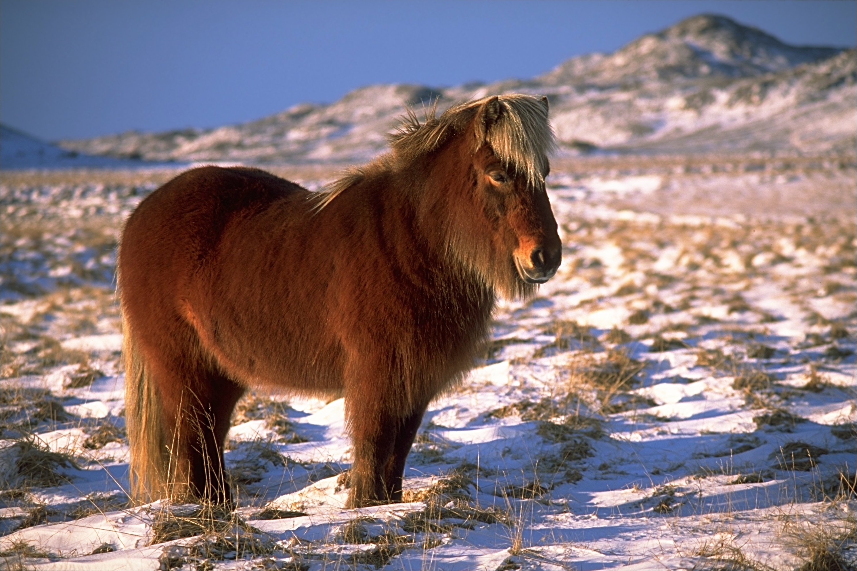 An Icelandic horse near Krýsuvík.